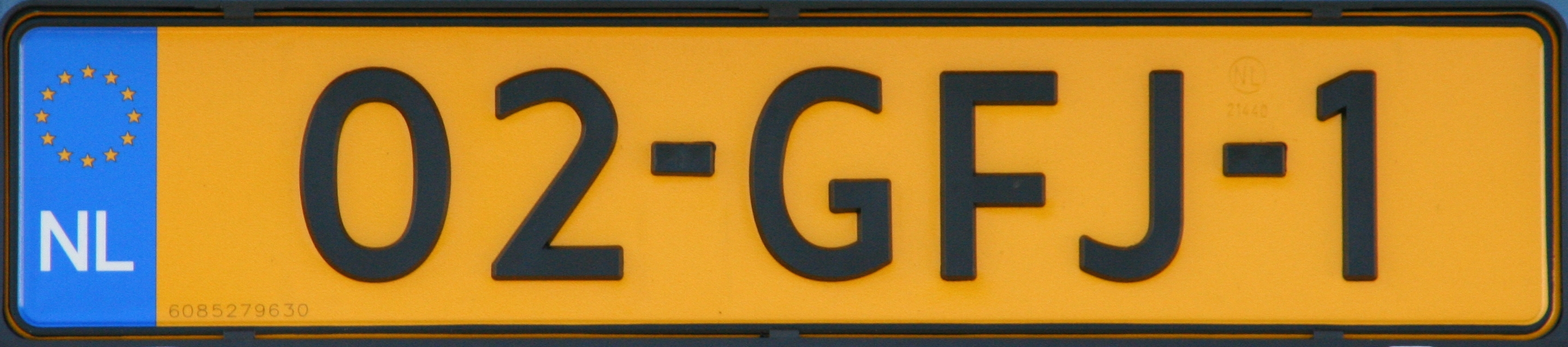 Last version of Dutch Licenseplate